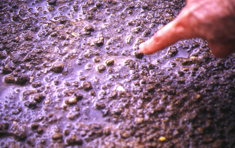 Rill initiation: finger pointing at a newly-developed headcut. To be used in rill